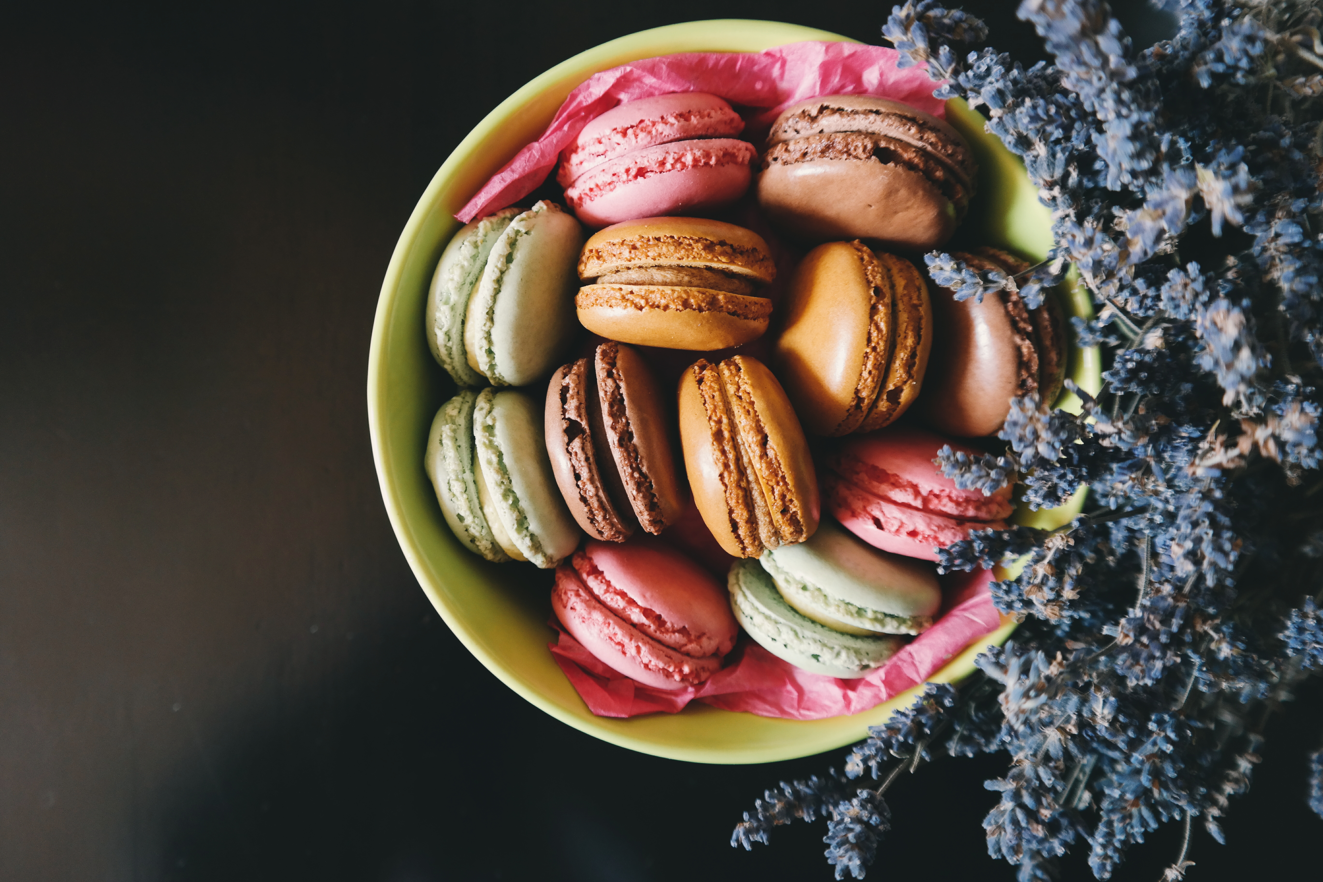 Brigitte Tohm 2016-10-10